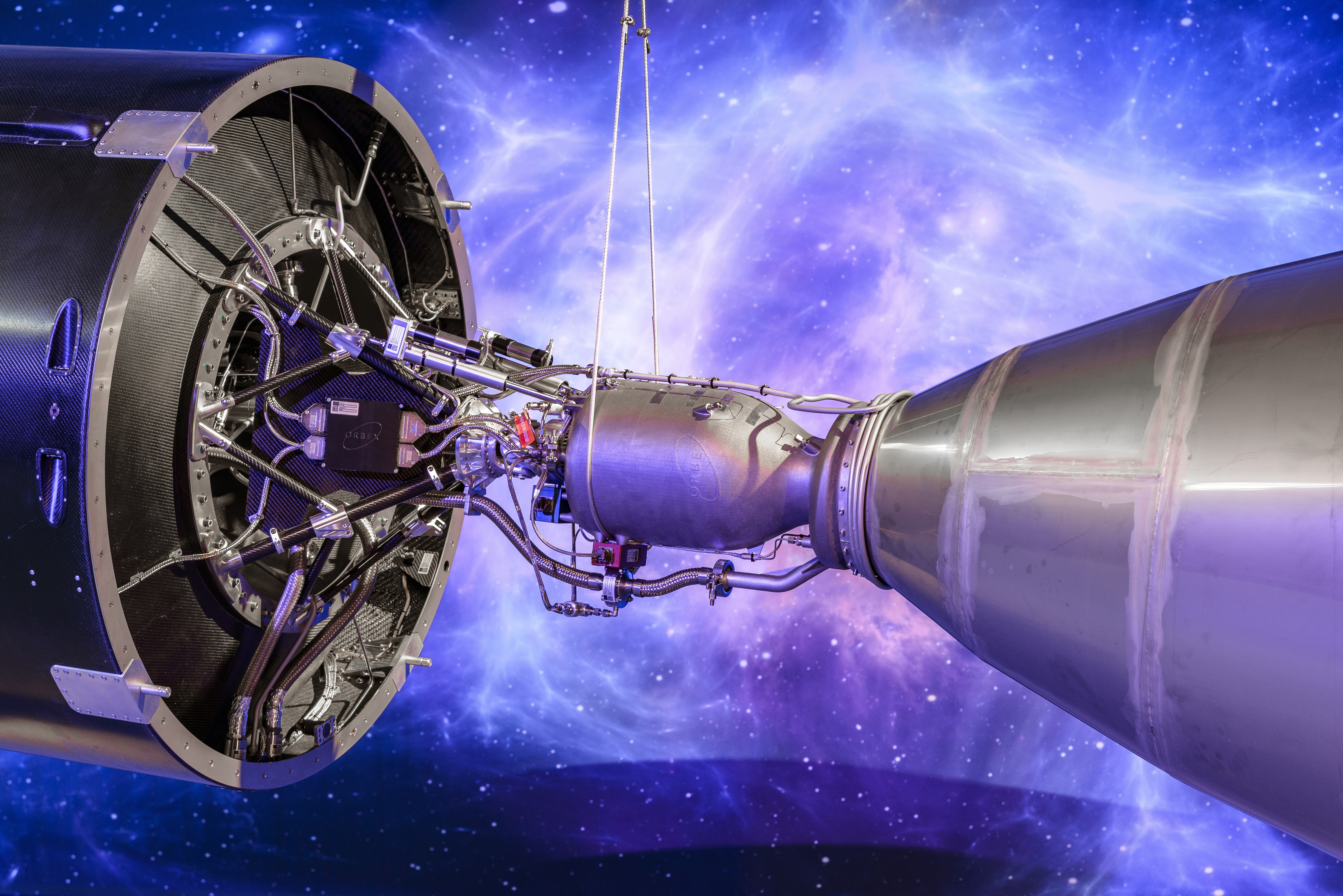 Second stage engine of the Prime orbital rocket, exibitited at the Orbex headquarters in Forres, Scotland